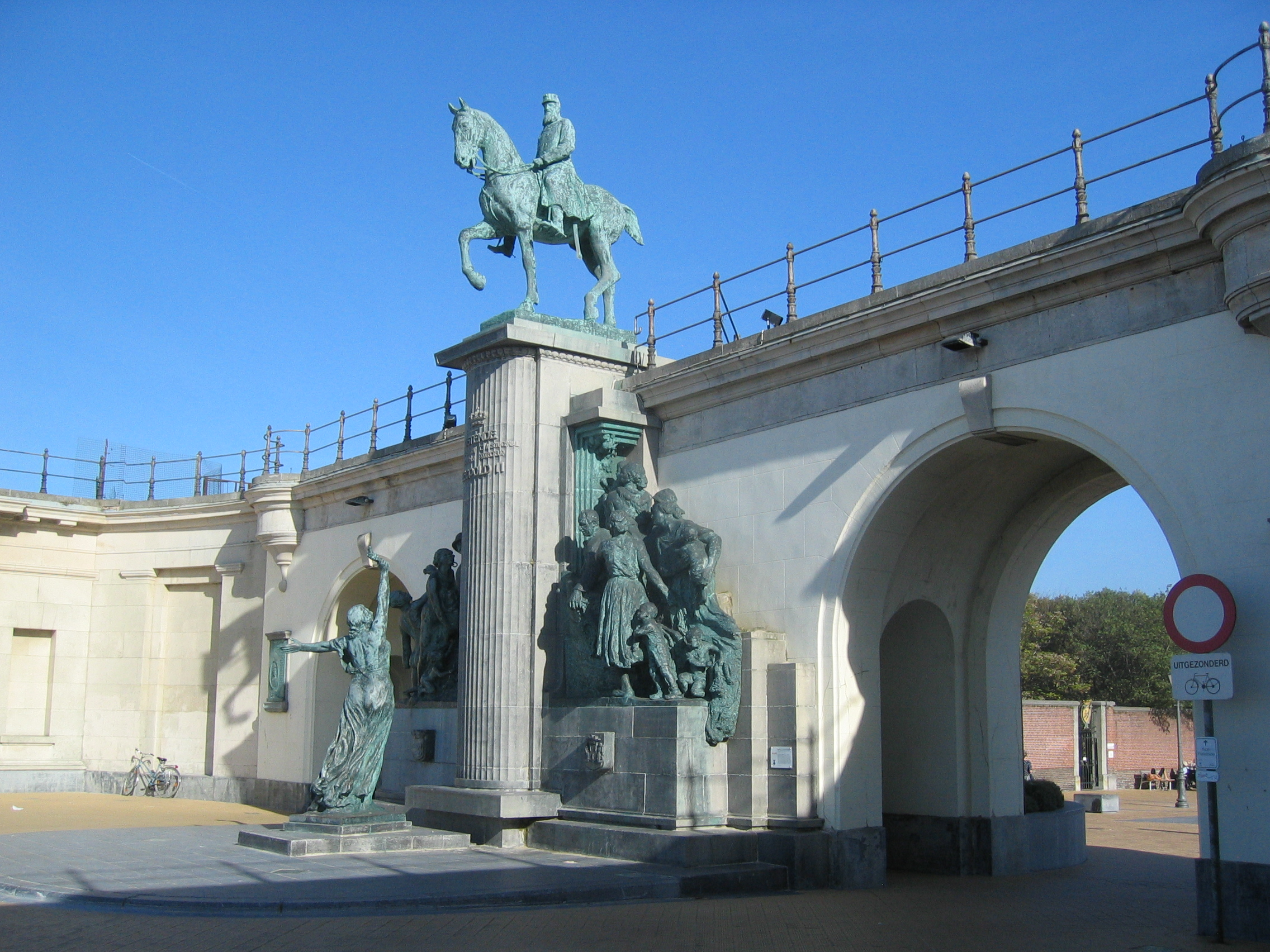 Statue of Leopold II in Ostend, 1931, by Alfred Courtens (1889-1967) and Antoine Courtens (1899-1969).